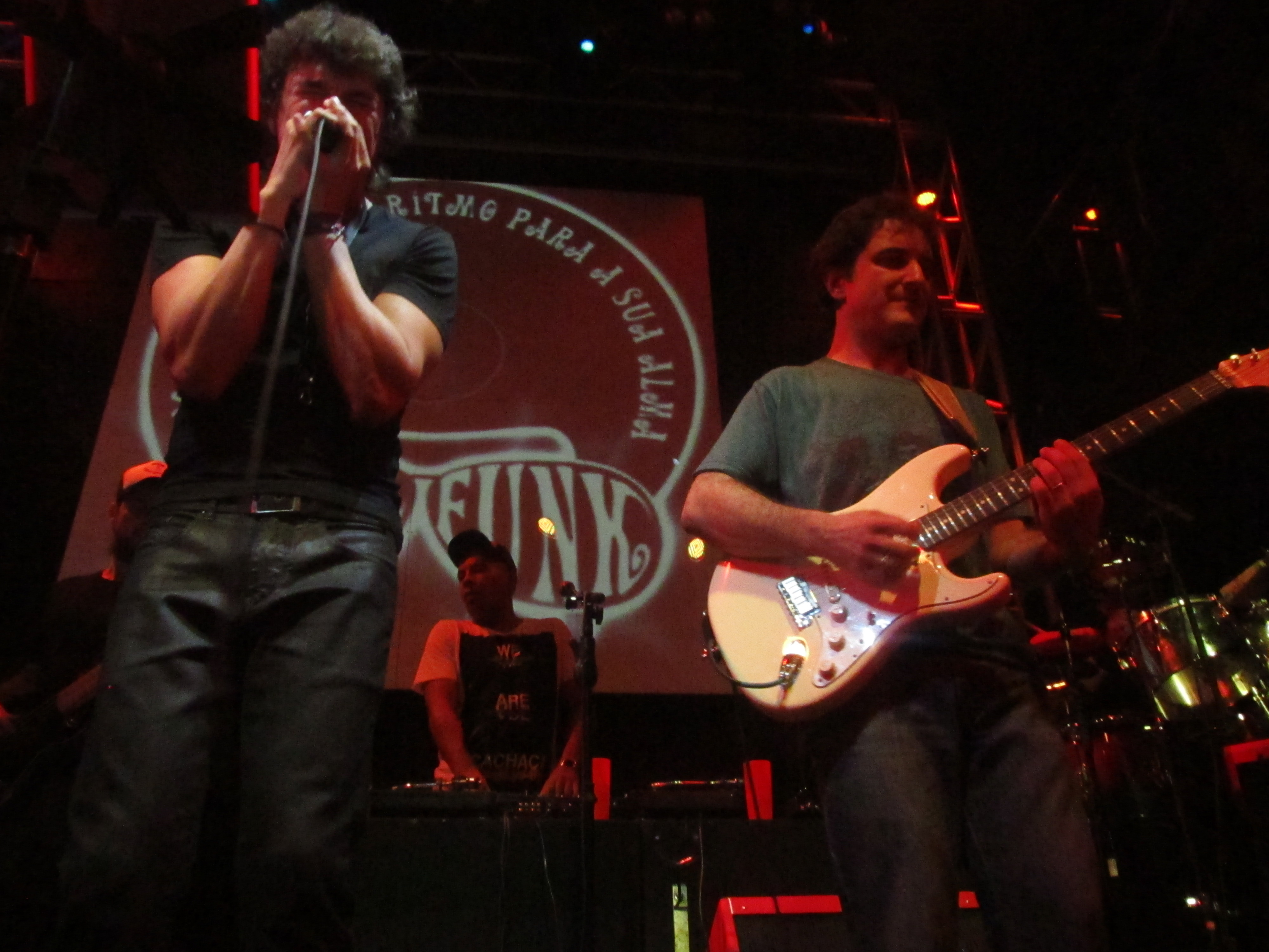 Milton Guedes in concert with Soul Funk band.